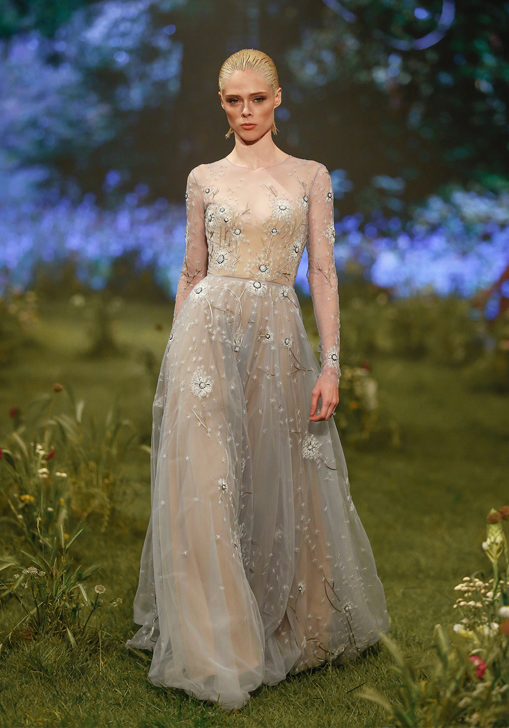 Model Coco Rocha wears a Paolo Sebastian 'Wildflowers' gown on the 2016 Adelaide Fashion Festival Runway